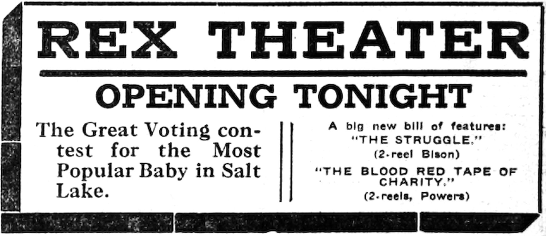 The Blood Red Tape of Charity is a 1913 American silent short drama film directed by Edwin August, produced by Pat Powers, and featuring Lon Chaney. This is a text based advert for a double feature.